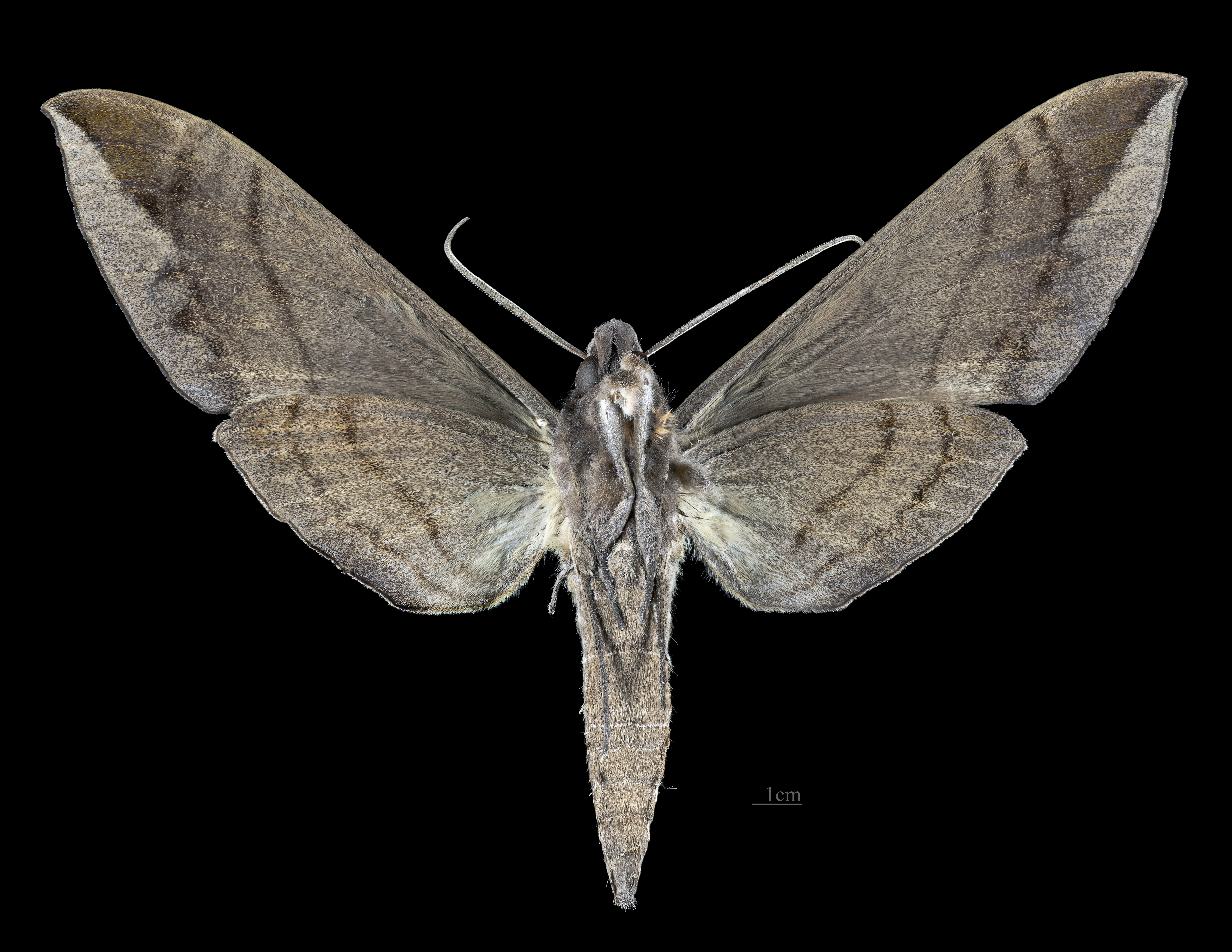 Eumorpha cissi - △ Ventral side Collection of the Mathematician Laurent Schwartz